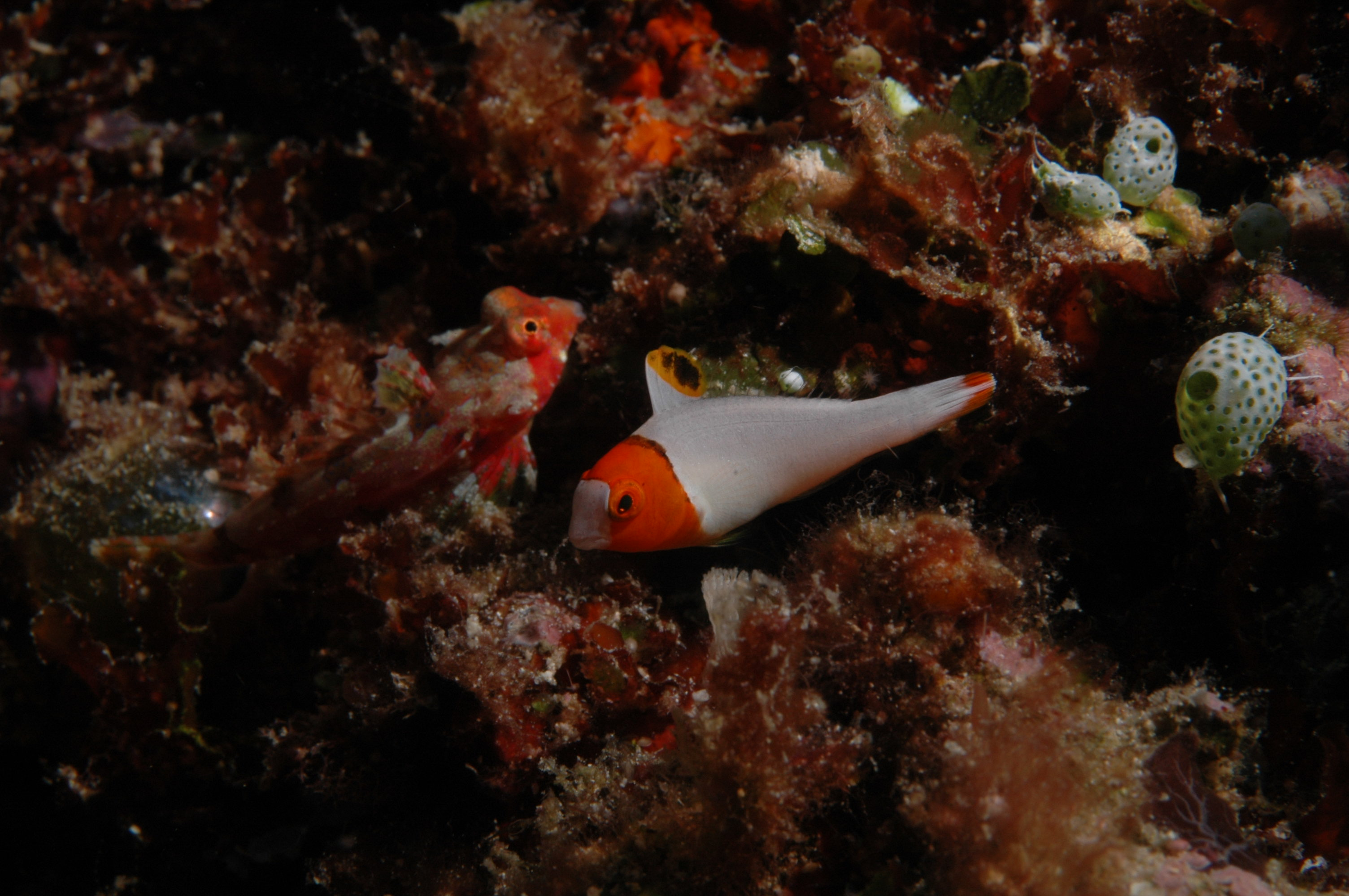 Dragonet and young parrotfish in the sea off the northern tip of Sulawesi, Indonesia